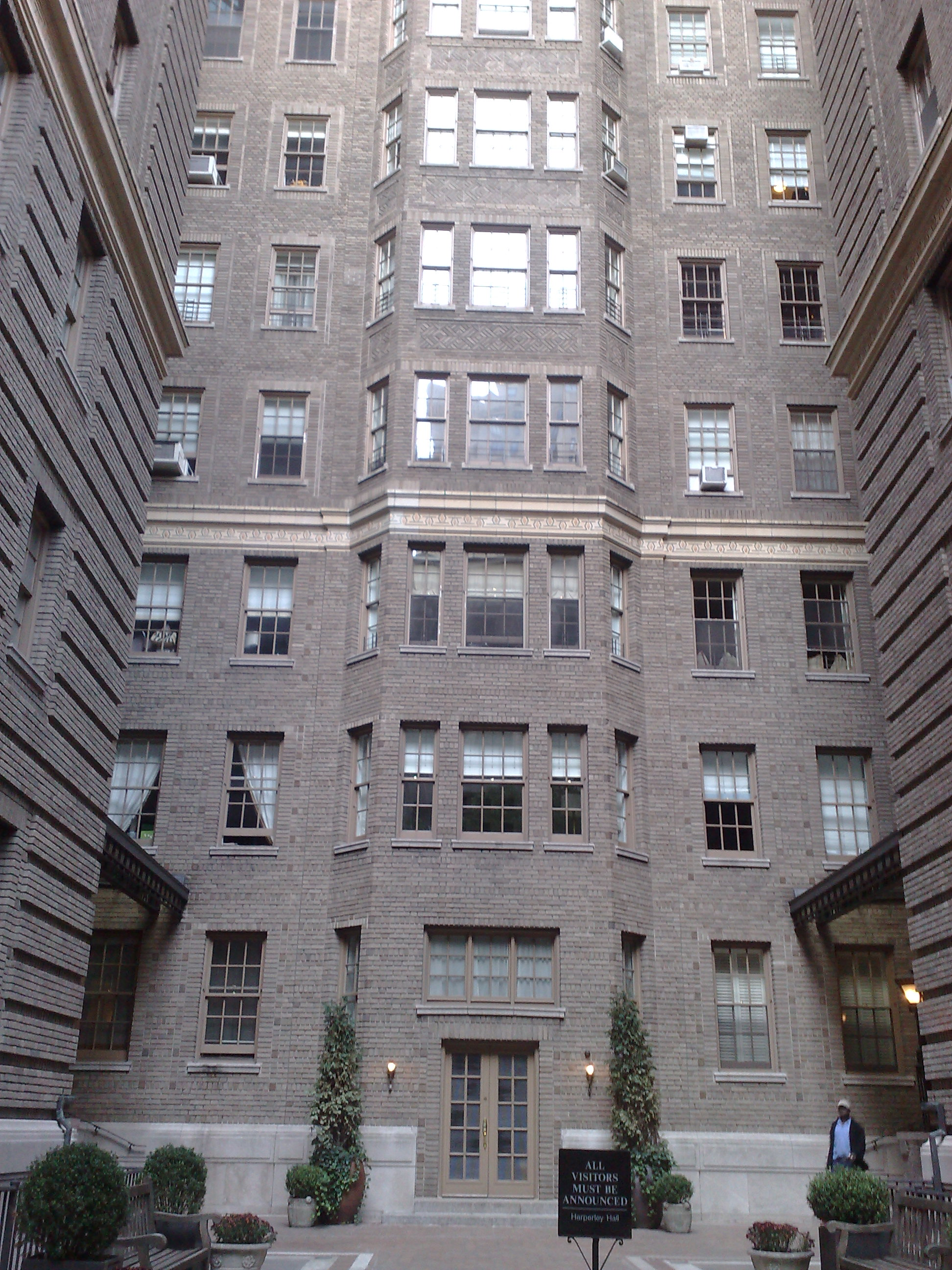 This photo is of Wikis Take Manhattan goal code A2, Harperly Hall.